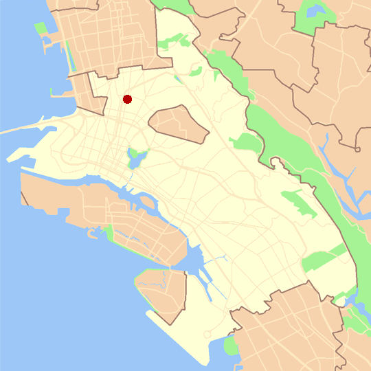 Map showing the location of Temescal in the city of Oakland, California. Created by User:Nogood using U.S. Census Bureau data.